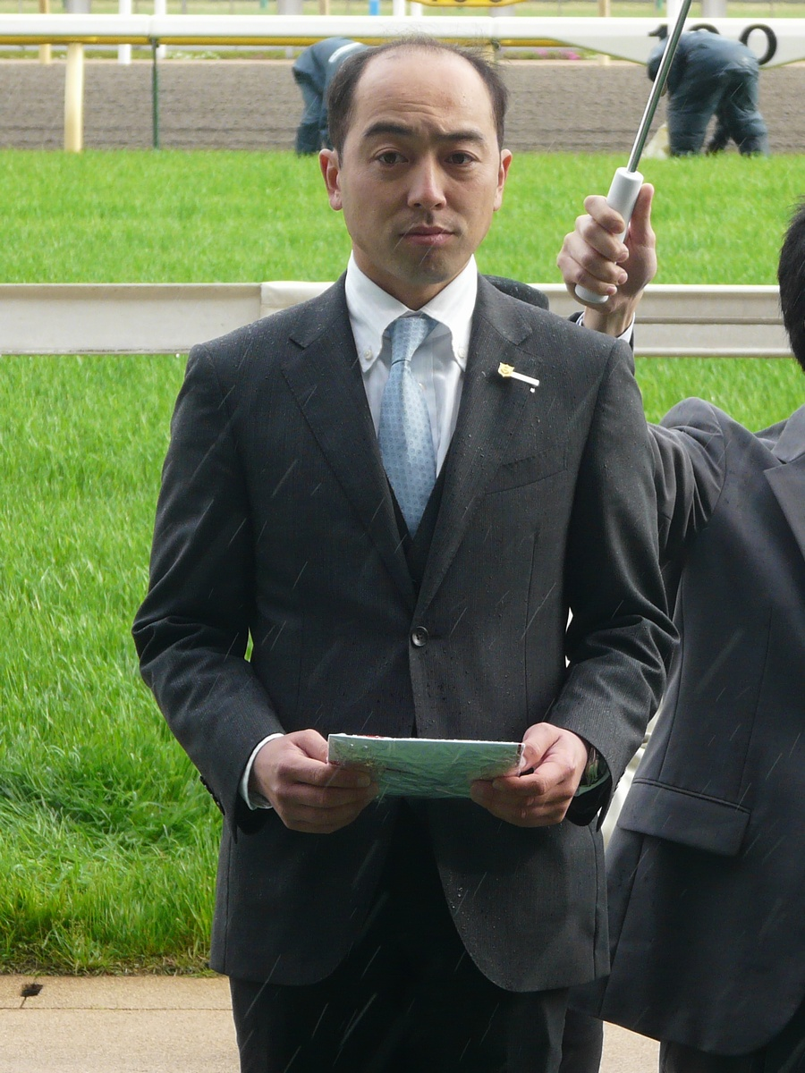 Toshiaki-Tajima20110423